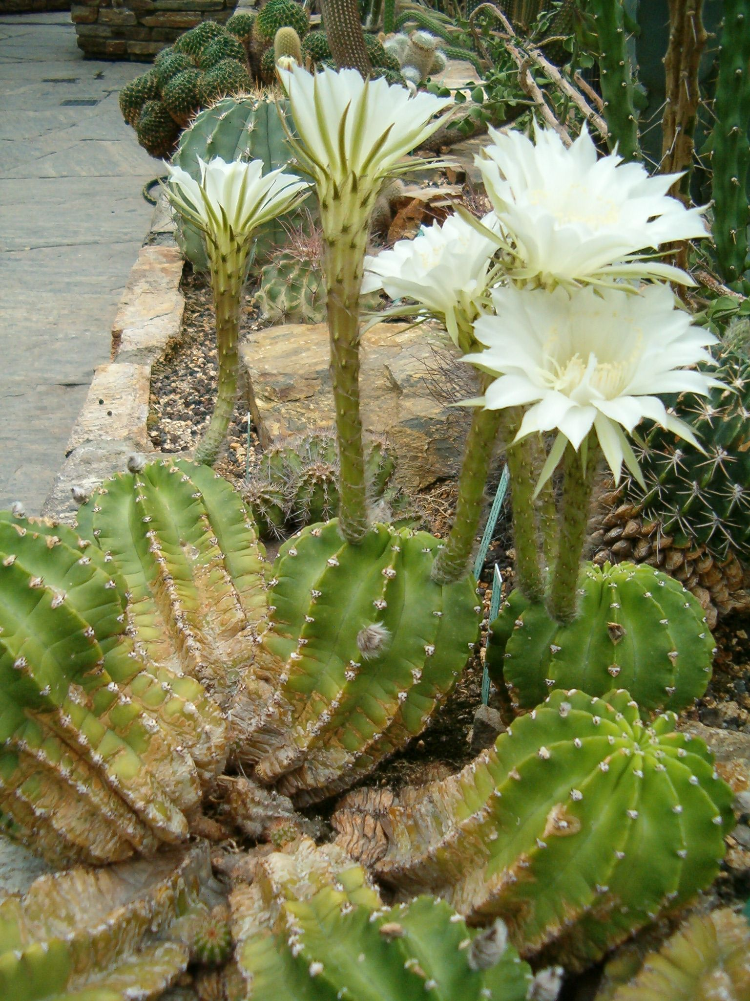 Habitus and Flowers Location: Botanical Gardens Berlin